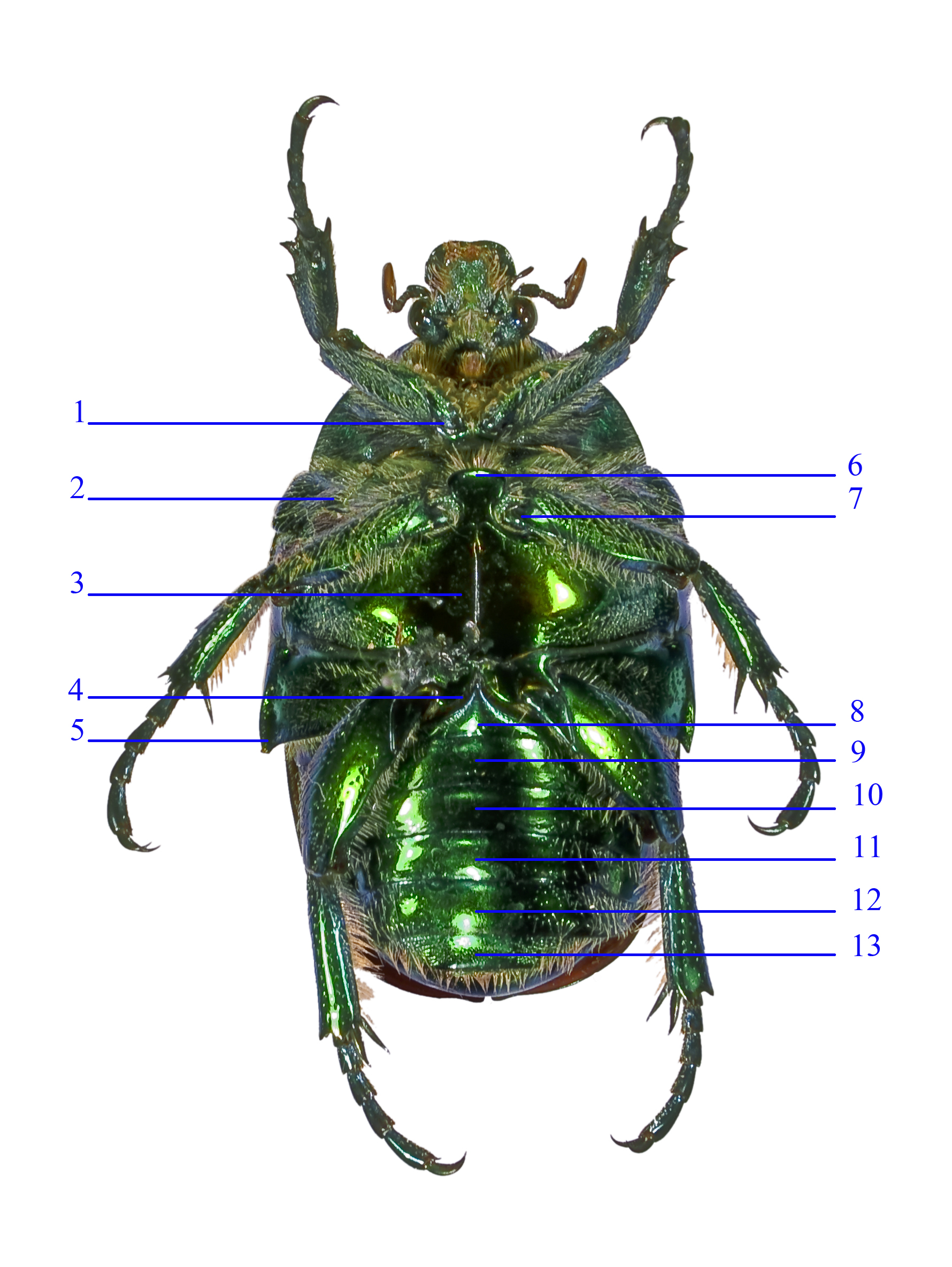 Anatomy of Cetoniidae (Flower chafer)(Protaetia (Cetonischema) aeruginosa) ventral view